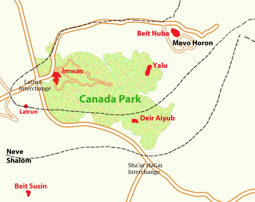 Canada Park, Israel/West Bank, showing former villages and armistice lines